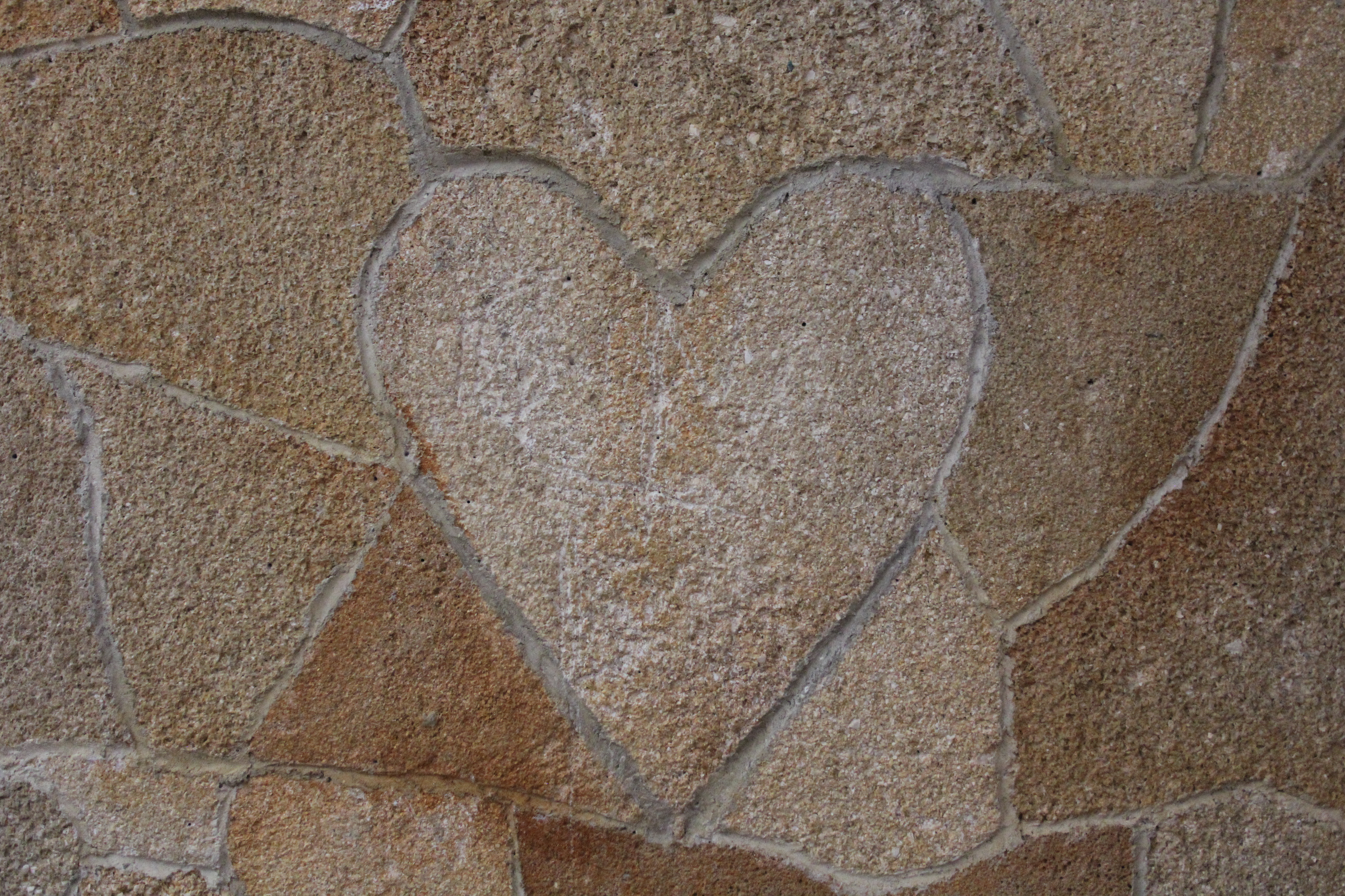 Photograph of the Bunnell Coquina City Hall - Heart Shaped Coquina Stone